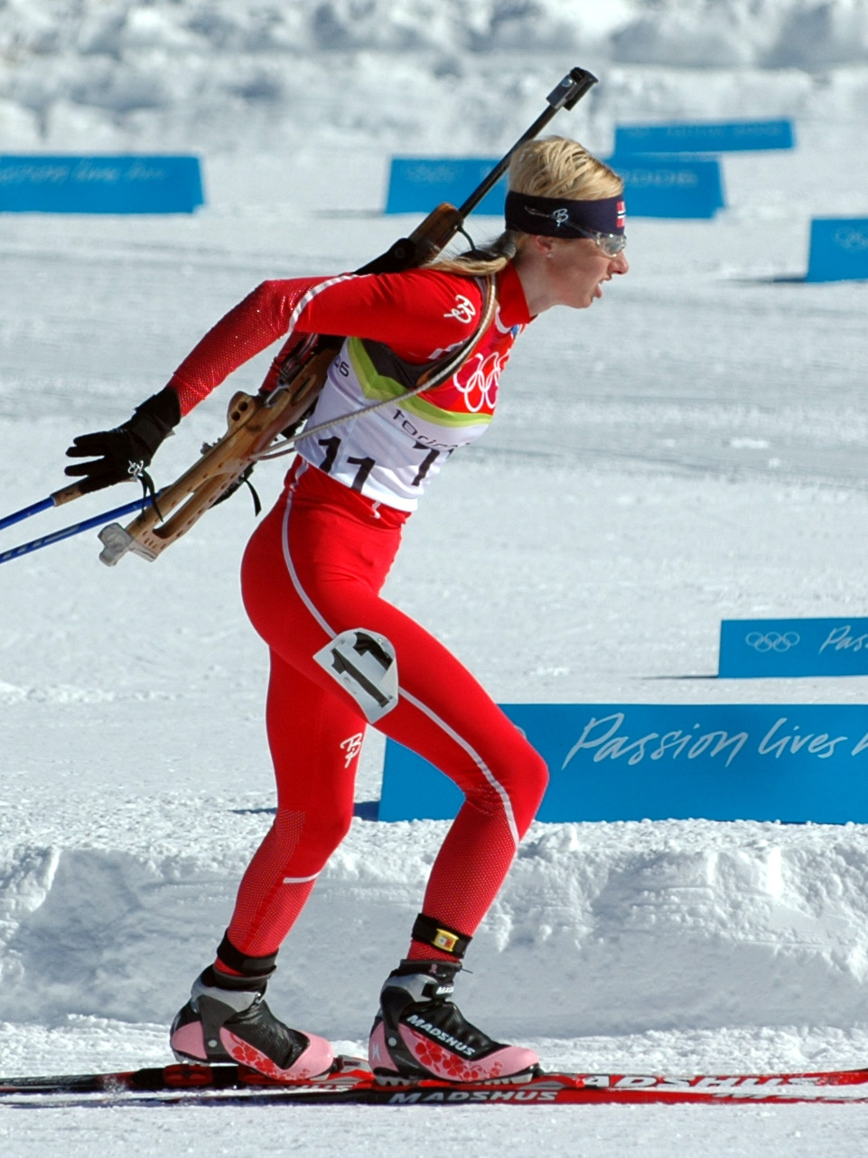 Gunn Margit Andreassen at the 2006 Winter Olympics in Torino.